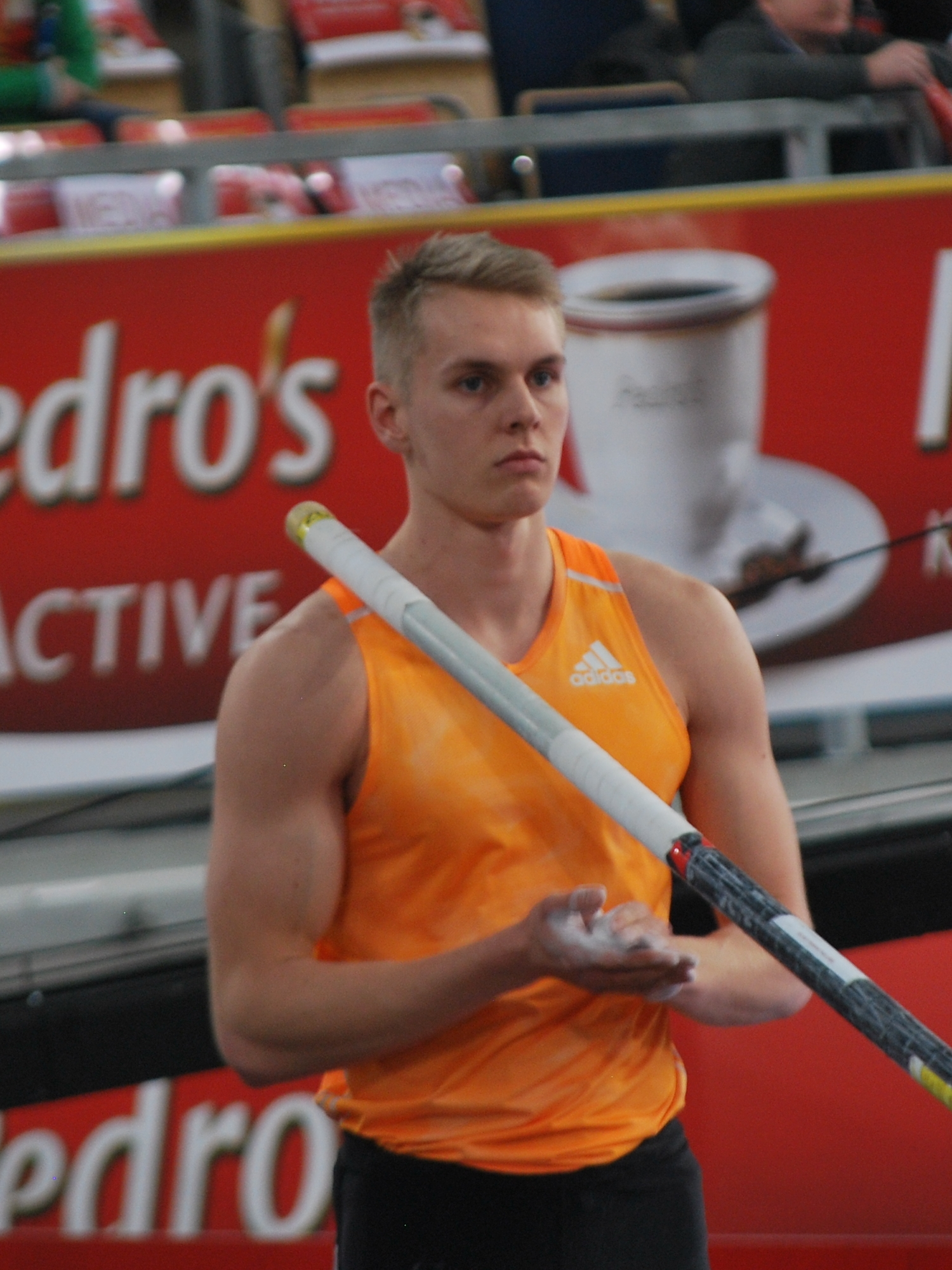 Pedros Cup 2015 Łódź, Robert Sobera, pole vaulter from Poland